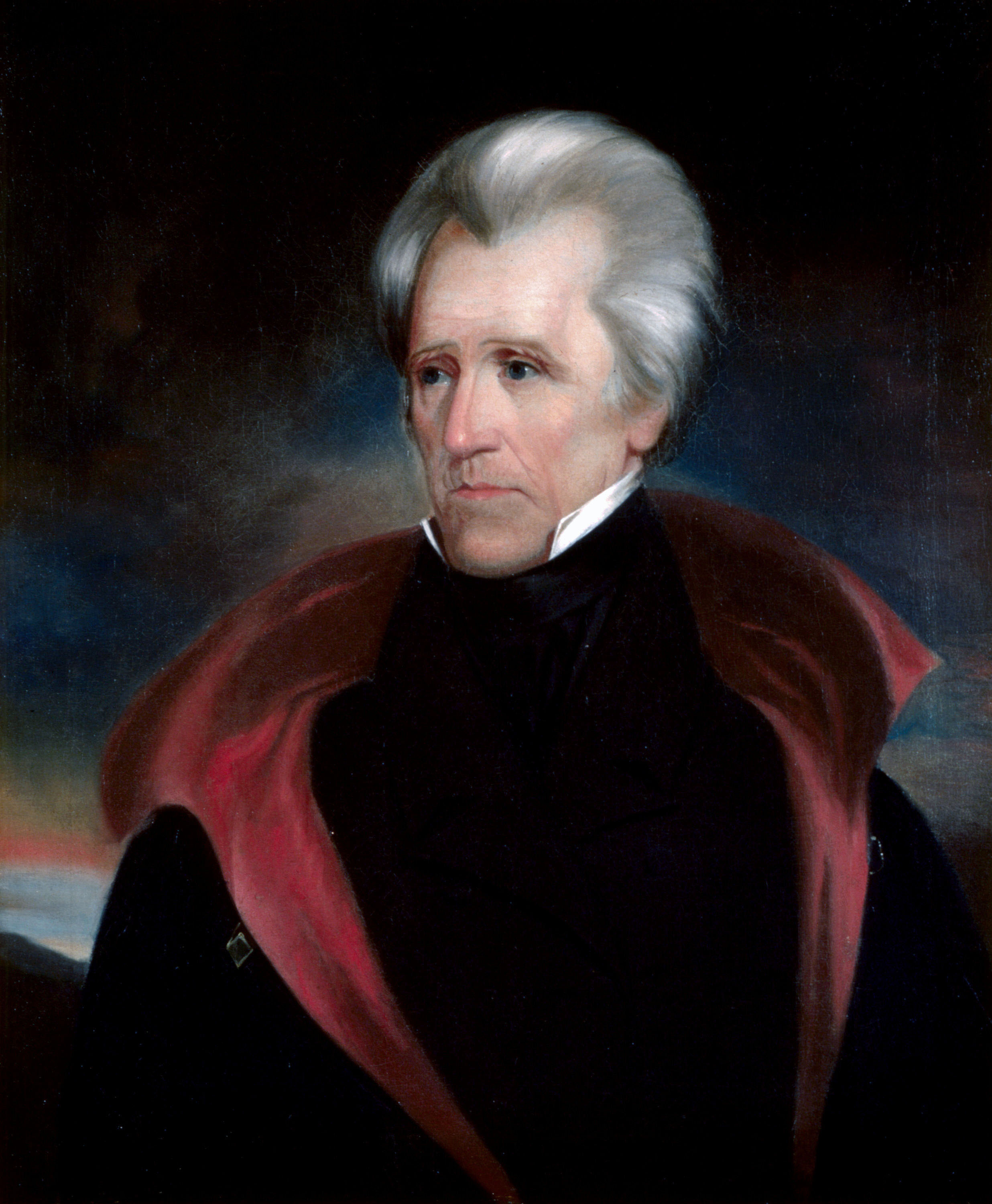 Portrait of Andrew Jackson, the seventh president of the United States